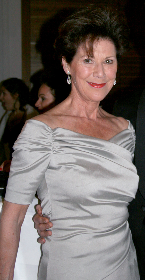 Ingrid Turković-Wendl at the charity ball dancer against cancer (Hofburg Imperial Palace, Vienna)